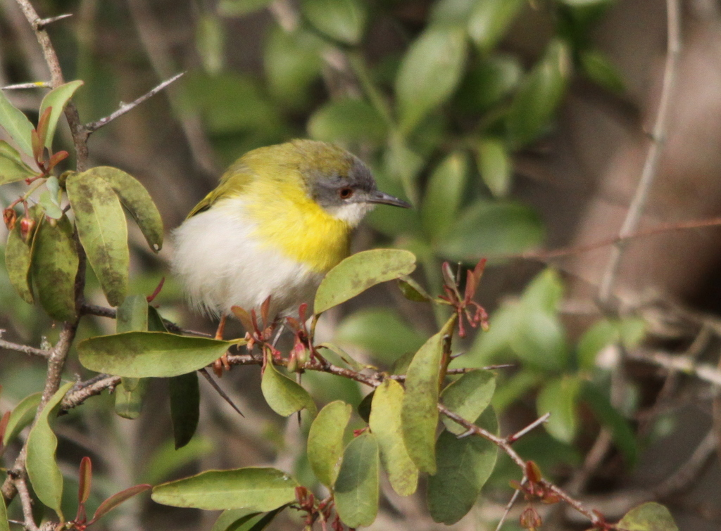 Yellow-breasted apalis (Apalis flavida) in Mkhuze Game Reserve, KZN, South Africa